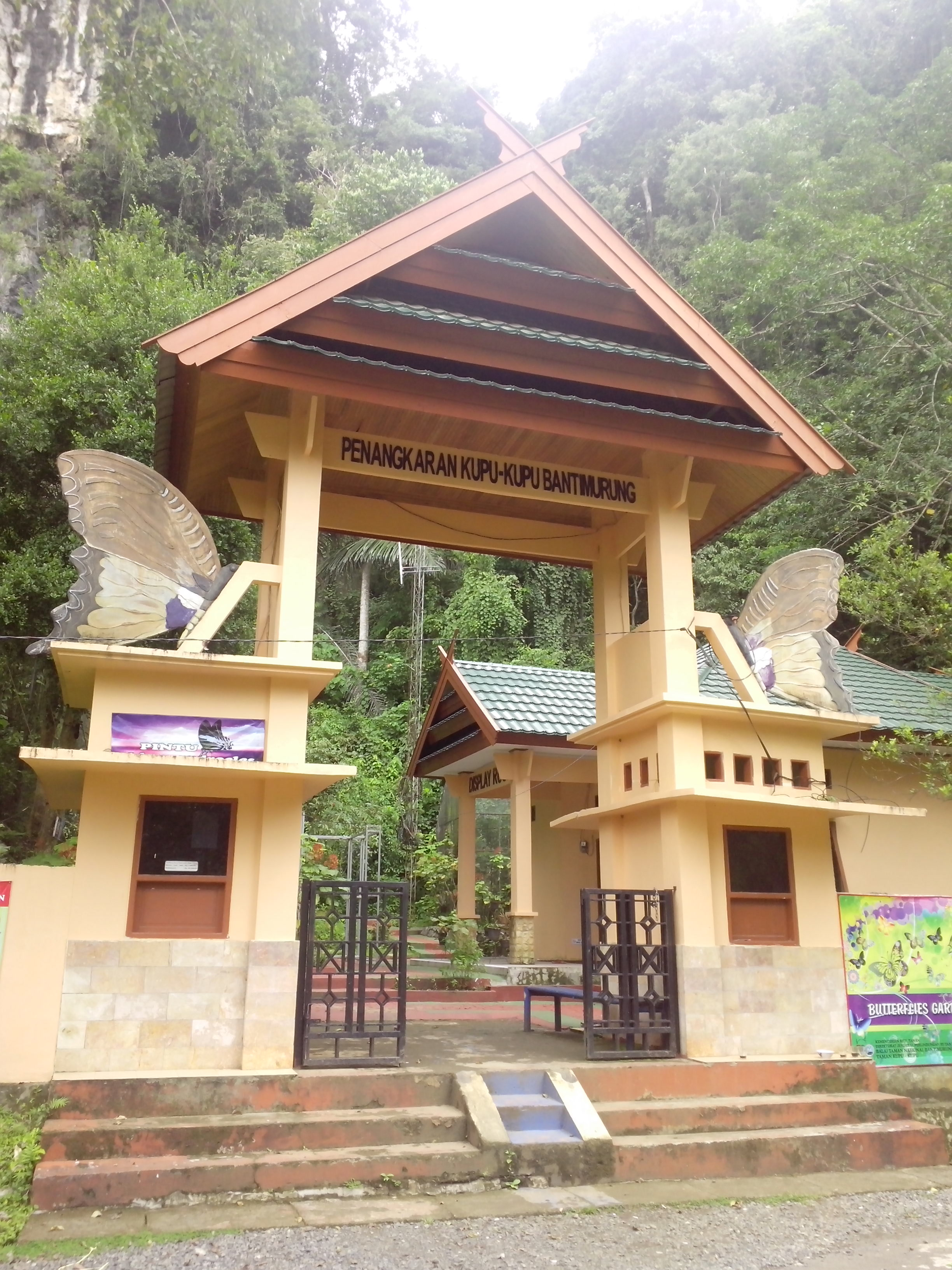 The gate of Butterfly Breeding Ground of Bantimurung in Maros. It is part of Bantimurung – Bulusaraung National Park.